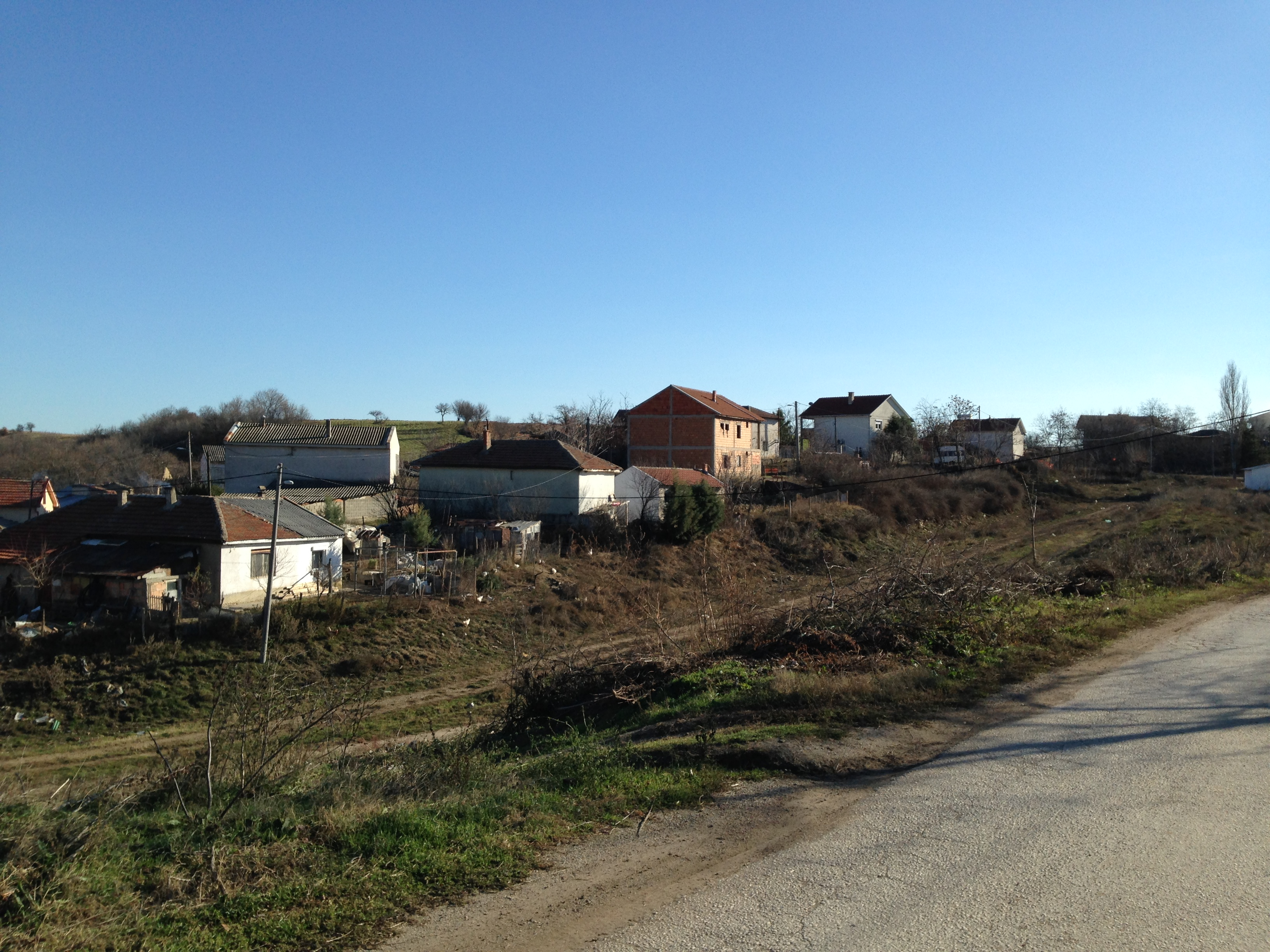 village of Kumarino, near Veles, Macedonia